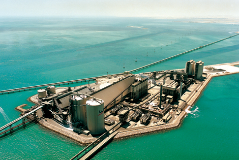 Aluminium Bahrain (Alba)